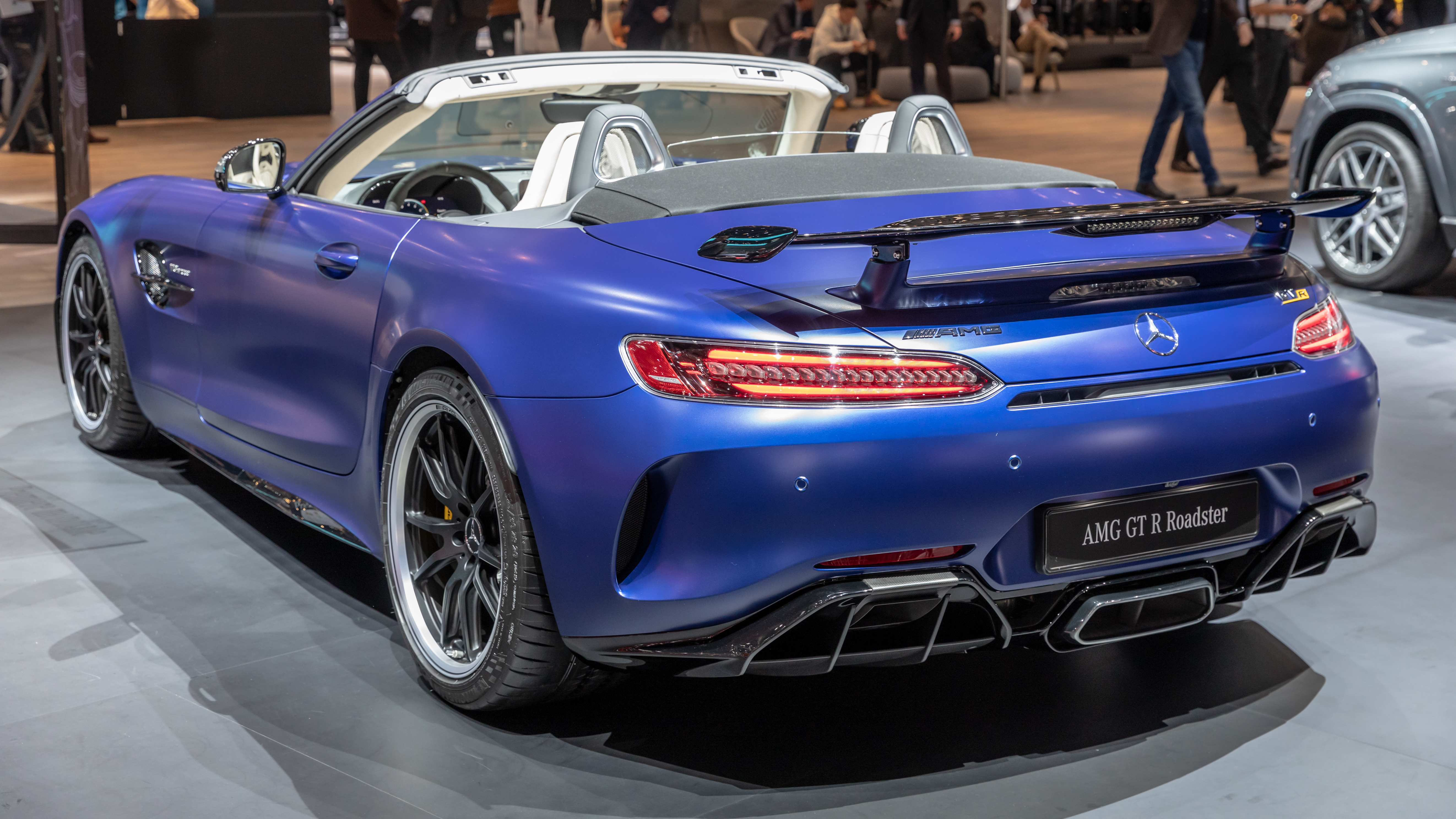 Mercedes-AMG GT R Roadster at Geneva International Motor Show 2019, Le Grand-Saconnex